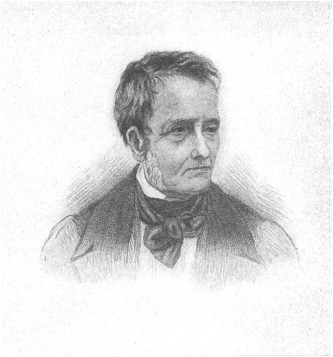 Thomas de Quincey - Project Gutenberg eText 19222